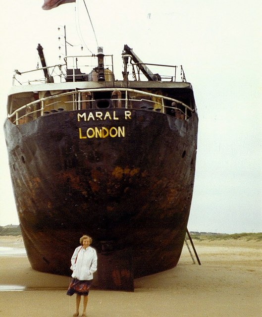 Shipwreck